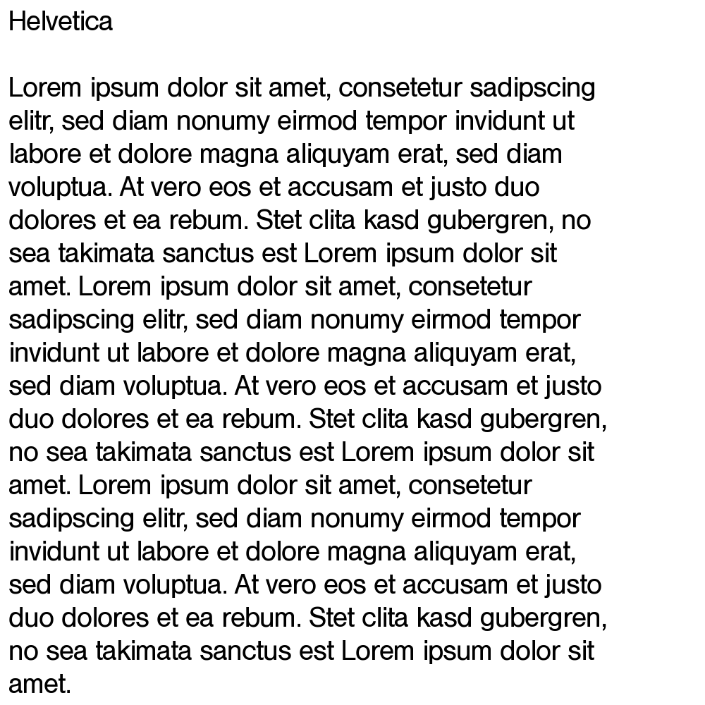 lorem ipsum in typeface Helvetica